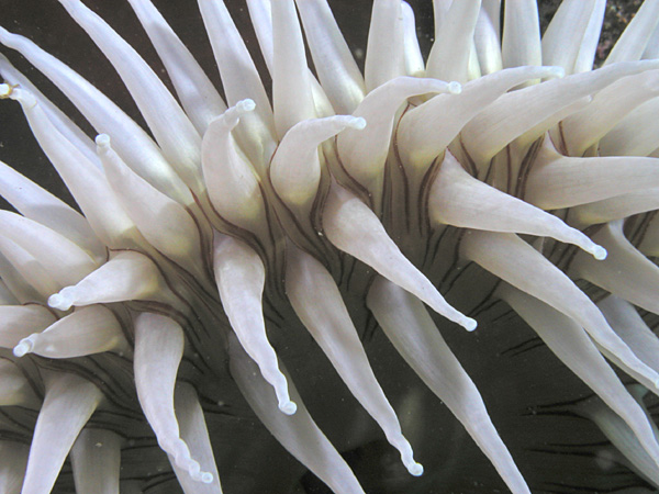 Close-up of anemone, Pt. Lobos, Carmel, California. Image taken by Clark Anderson/Aquaimages.